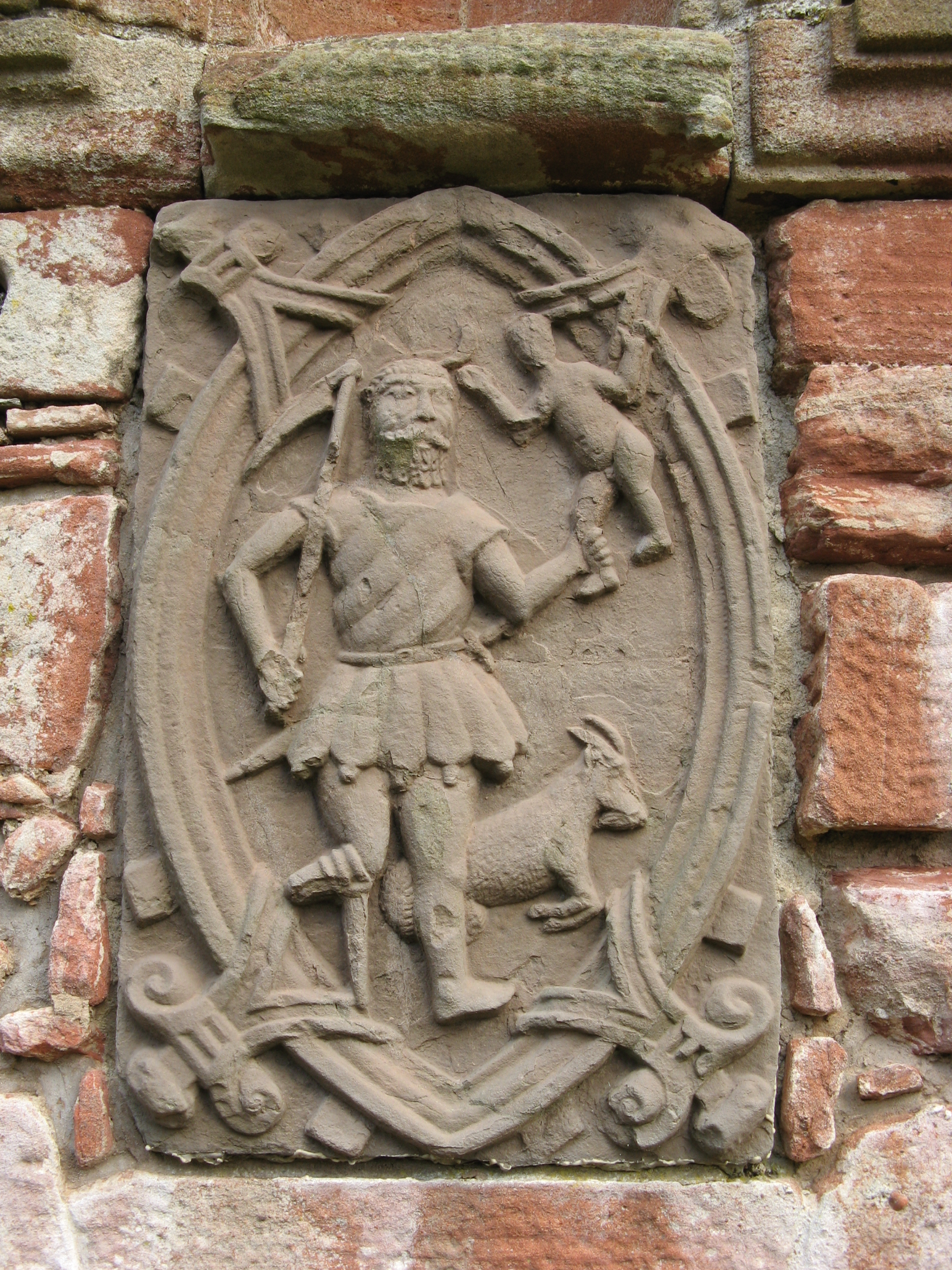 Edzell Castle, Angus, Scotland. One of the seven planetary deities carvings.